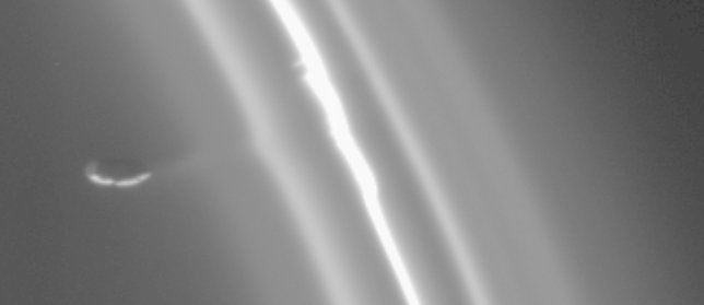 Prometheus causing kinks in Saturn's F Ring. Full caption released with image: As it completed its first orbit of Saturn, Cassini zoomed in on the rings to catch this wondrous view of the shepherd moon Prometheus (102 kilometers, or 63 miles across) working its influence on the multi-stranded and kinked F ring. The F ring resolves into five separate strands in this closeup view. Potato-shaped Prometheus is seen here, connected to the ringlets by a faint strand of material. Imaging scientists are not sure exactly how Prometheus is interacting with the F ring here, but they have speculated that the moon might be gravitationally pulling material away from the ring. The ringlets are disturbed in several other places. In some, discontinuities or "kinks" in the ringlets are seen; in others, gaps in the diffuse inner strands are seen. All these features appear to be due to the influence of Prometheus. The image was taken in visible light with the narrow angle camera on October 29, 2004, at a distance of about 782,000 kilometers (486,000 miles) from Prometheus and at a Sun-Prometheus-spacecraft, or phase, angle of 147 degrees. The image scale is 4.7 kilometers (2.9 miles) per pixel. The image has been magnified by a factor of two, and contrast was enhanced, to aid visibility.